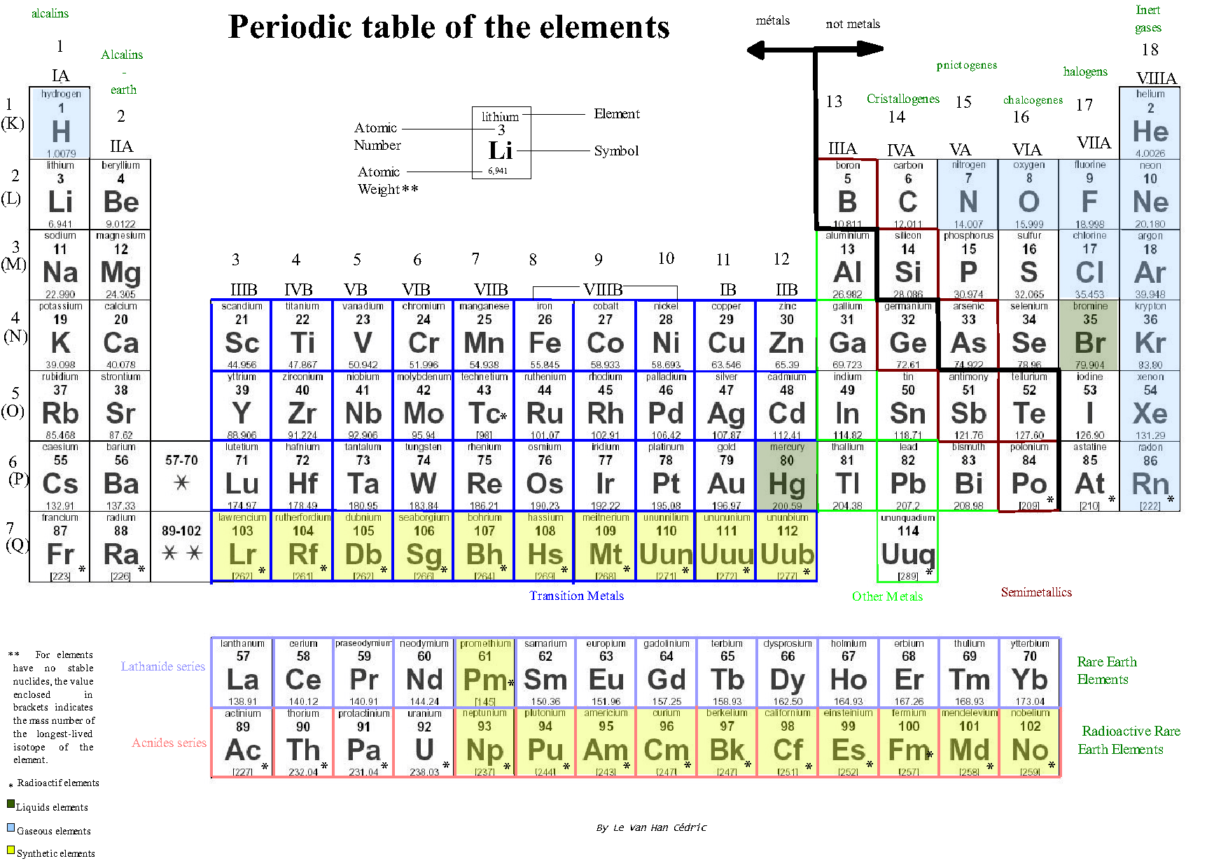 periodic table of the elements, officiel representation.